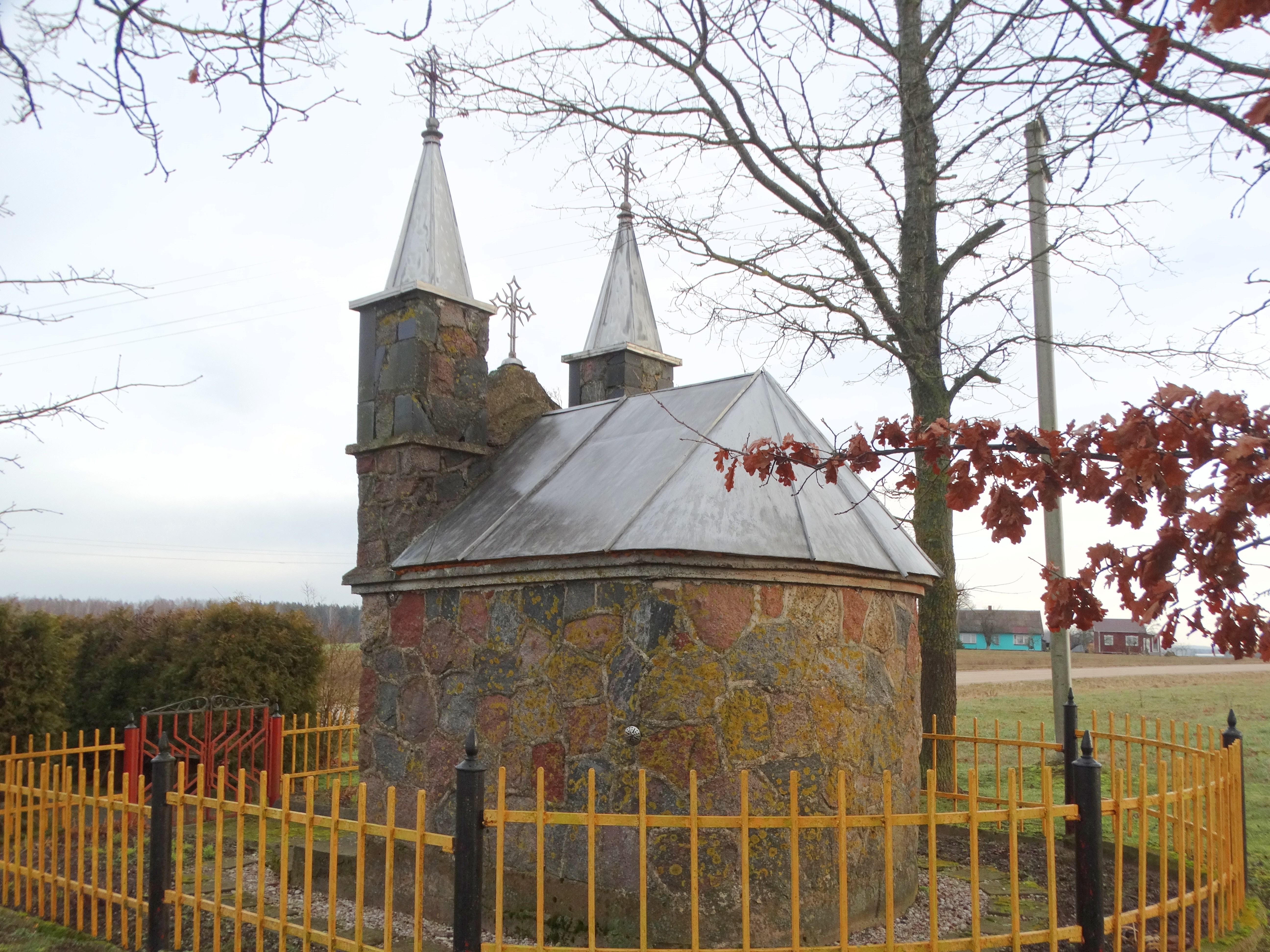 Narvydžiai chapel, Skuodas District, Lithuania